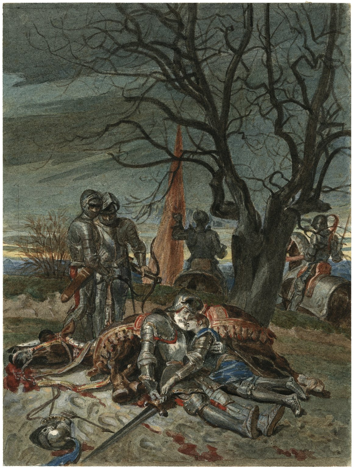 A painting by Alexandre Bida of a scene from Act IV, Scene vii: the death of Lord Talbot and his son.